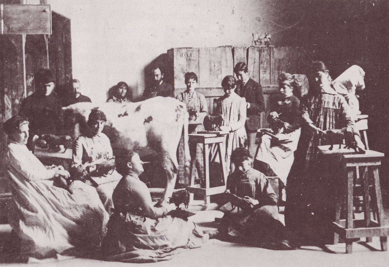 Photo Modeling class at the Pennsylvania Academy of the Fine Arts